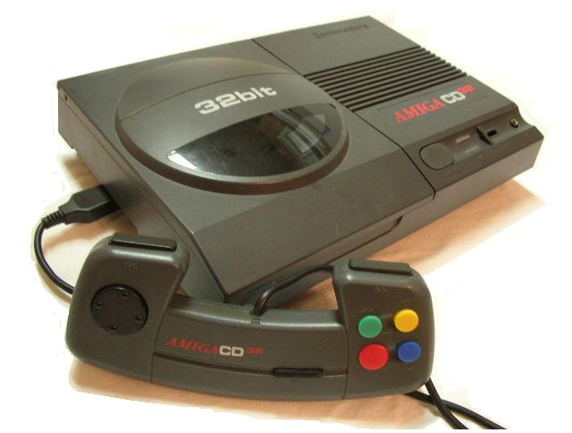 Photo of the Amiga CD32 video game console